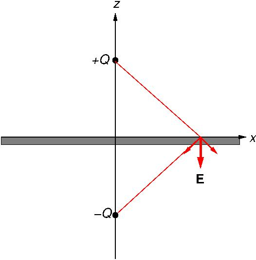 Electric charge above a conducting xy-plane and mirror image